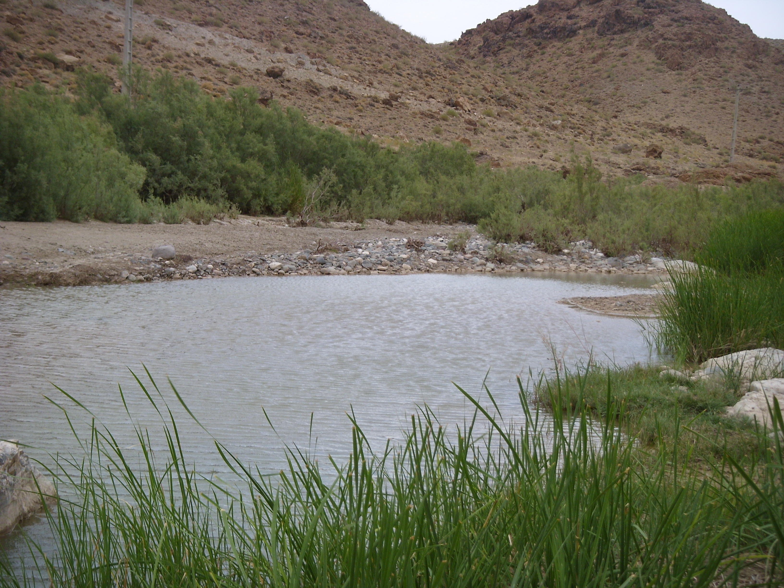 رودخانه ی زردشت در جنوب شهرستان بافت طولانی ترین سرشاخه ی هلیل رود است.